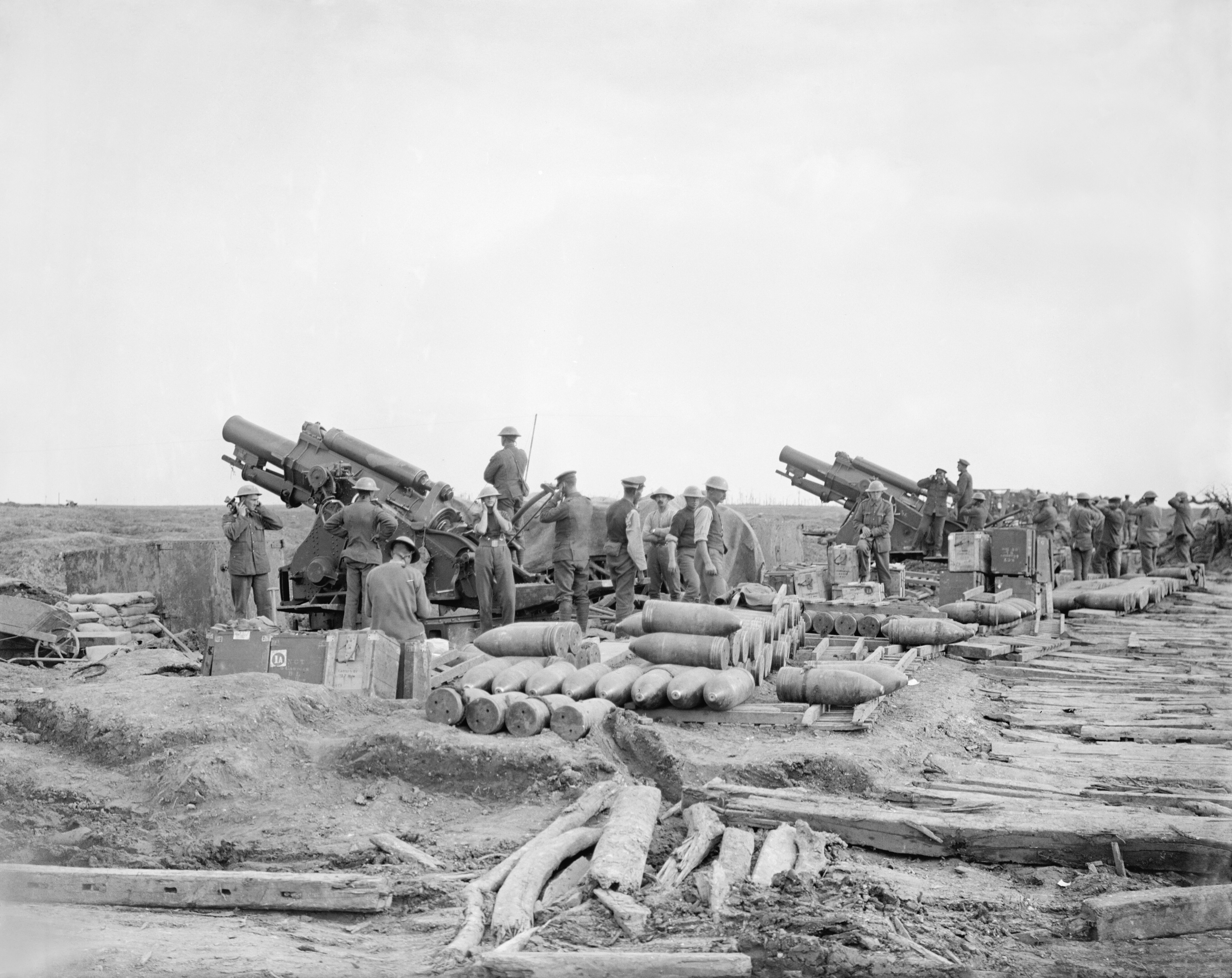 The Battle of Passchendaele, July-november 1917 Two 9.2 inch howitzers of the Royal Garrison Artillery at Guillemont about to fire, 4 October 1917.